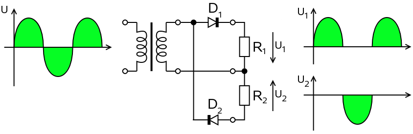 Half wave rectification of positive and negative halfes of a sine wave. Positive half-wave rectification (right above) and negative half-wave rectification (right below) working as a voltage doubler.